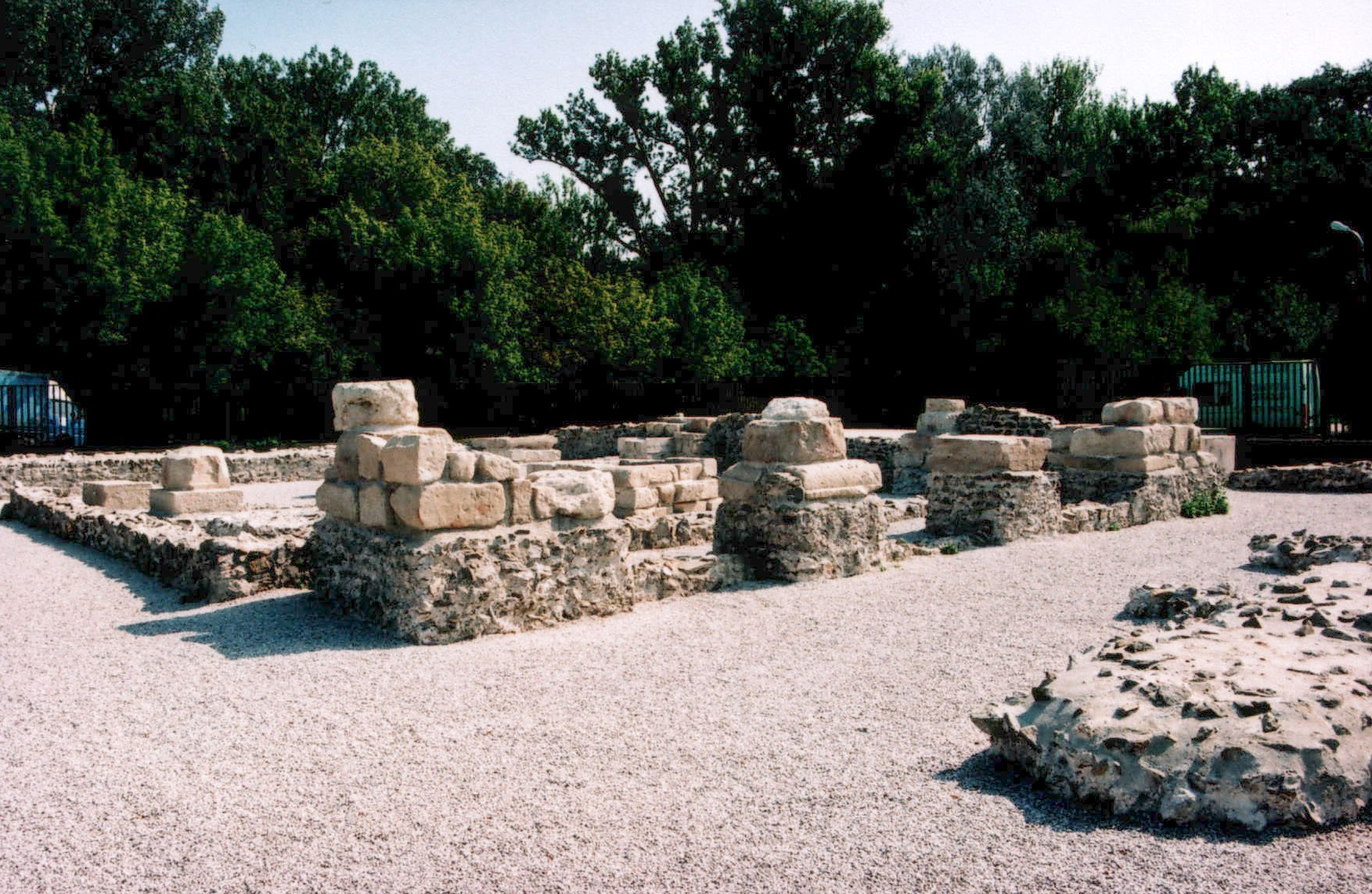 Gerulata (Bratislava - Rusovce / Oroszvár / Karlburg). Ruins of Roman military camp.